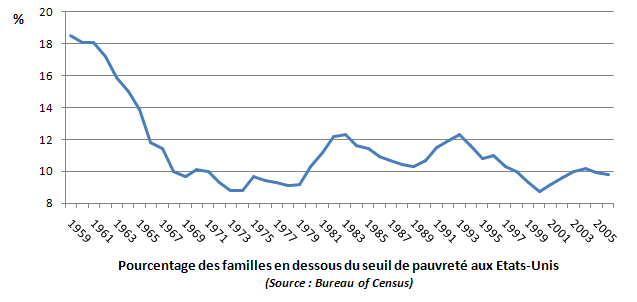 Poverty rate for American families since 1959